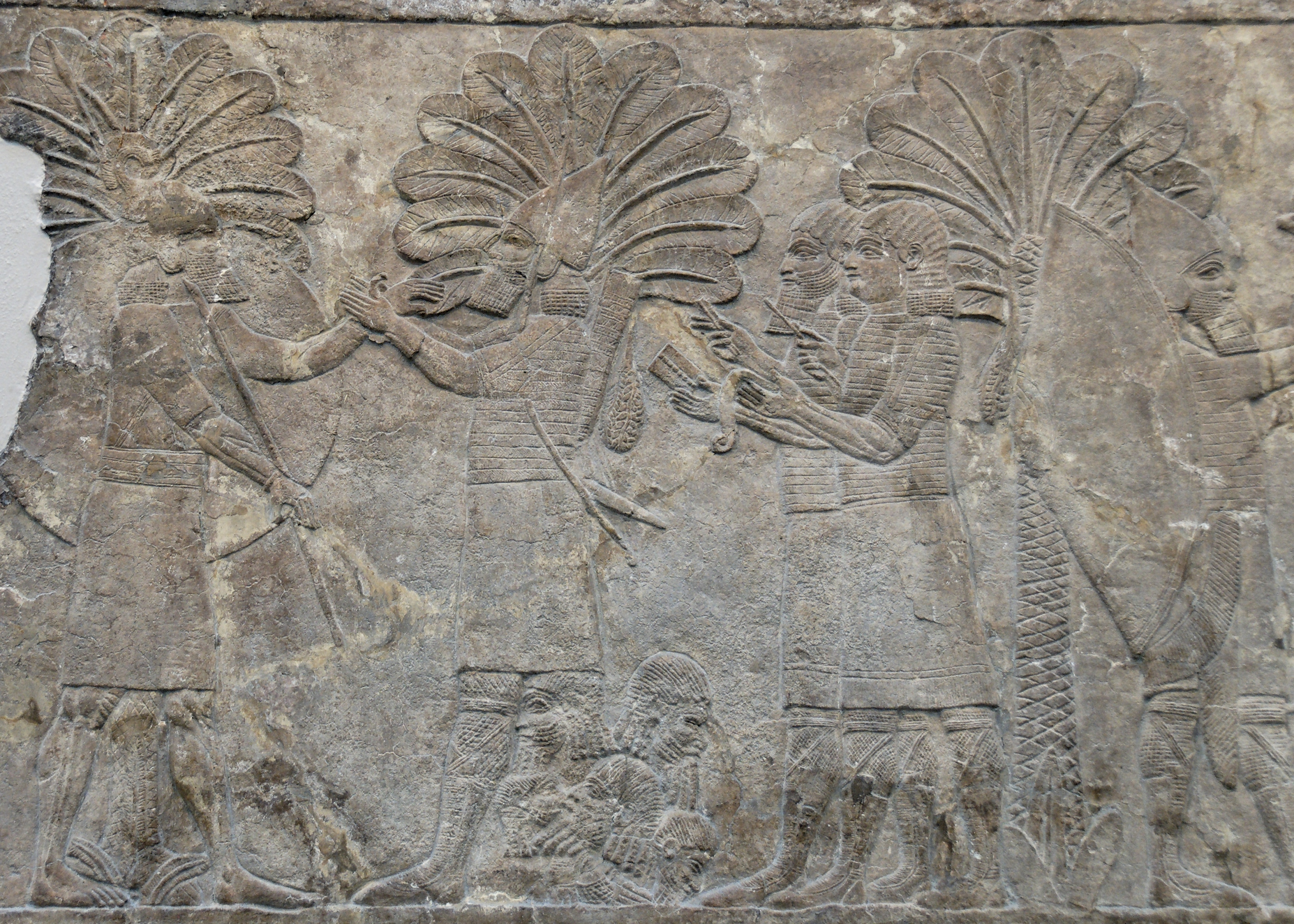 Campaigning in southern Iraq: soldiers piling up booty. Stone, Assyria artwork, ca. 640-620 BC. From the South-West Palace in Nineveh, room XXVIII, panels 7-9.